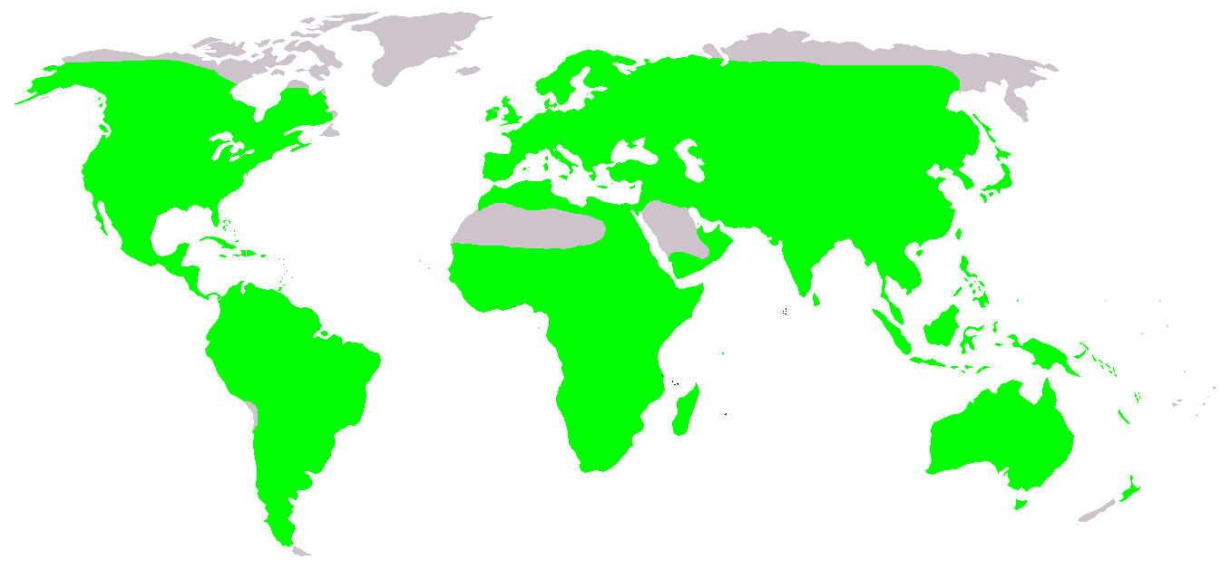 Known world distribution of Anura (Amphibians). After data from: Cogger, H.G & Zweifel, R.G. (1998). Reptiles & Amphibians". ISBN 0121785602. Altered version of Image:Frog distribution.png (black to green)